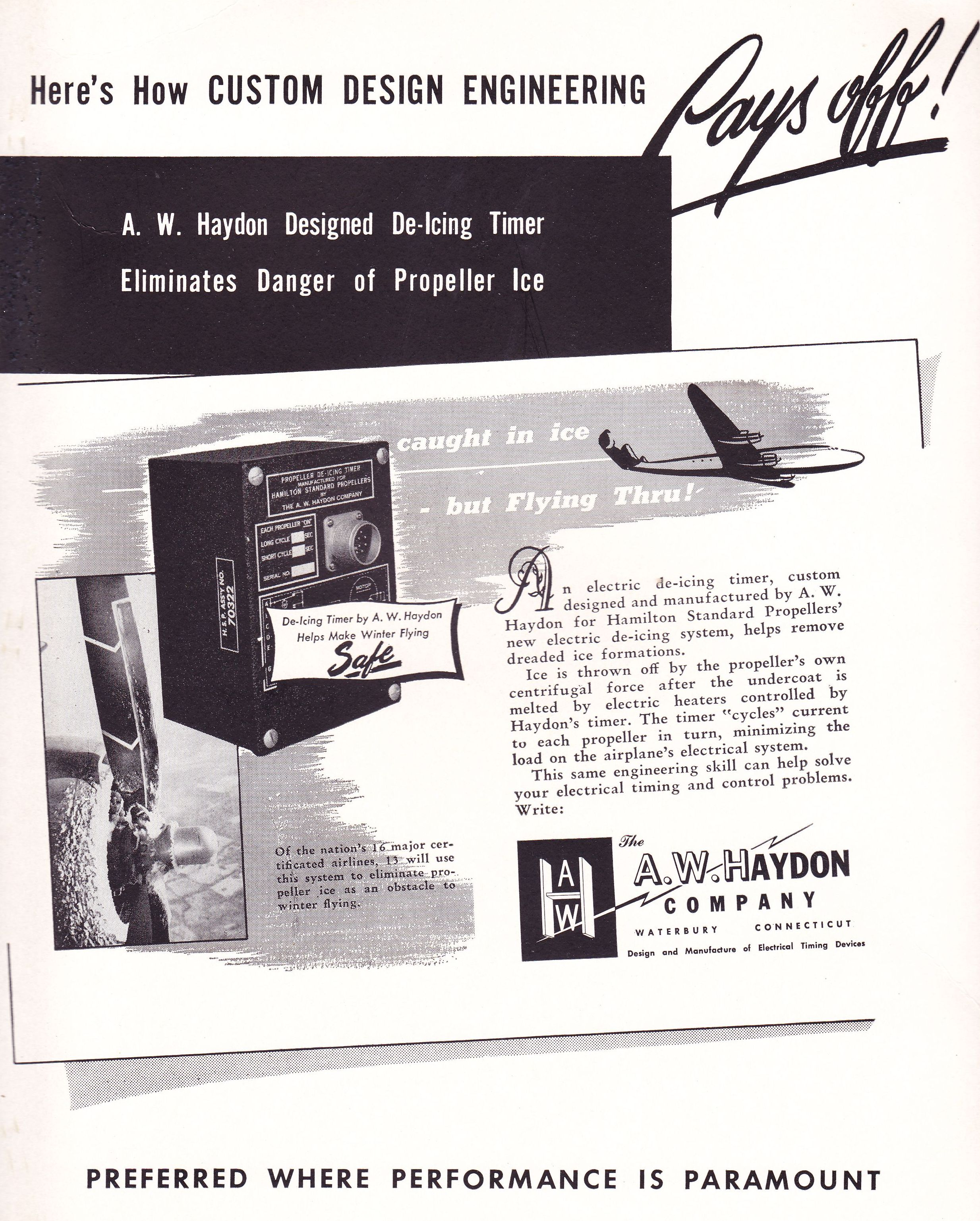 Inside back cover of 1949 Haydon sales catalog.